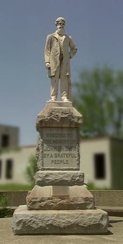 John Brown Life size white marble statue (7 foot, 2 inch) with granite pedestal Location : Quindaro-Western University Historical District, Quindaro Townsite, Kansas City, Kansas Dedicated: Western University campus in June, 1911. Inscription: Erected to the Memory of John Brown by A Grateful People.